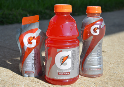 G Series